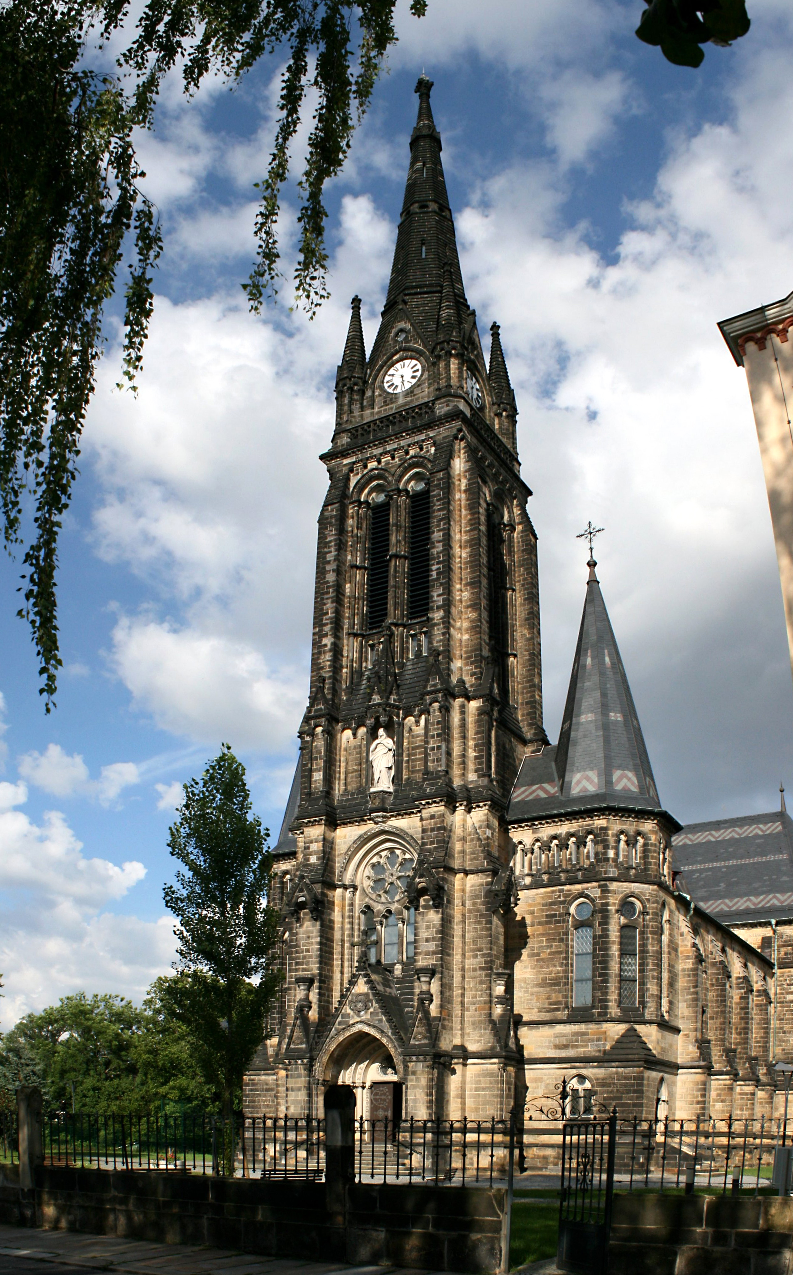 Roman Catholic Church of the Visitation in Zittau (Görlitz district, Saxony)